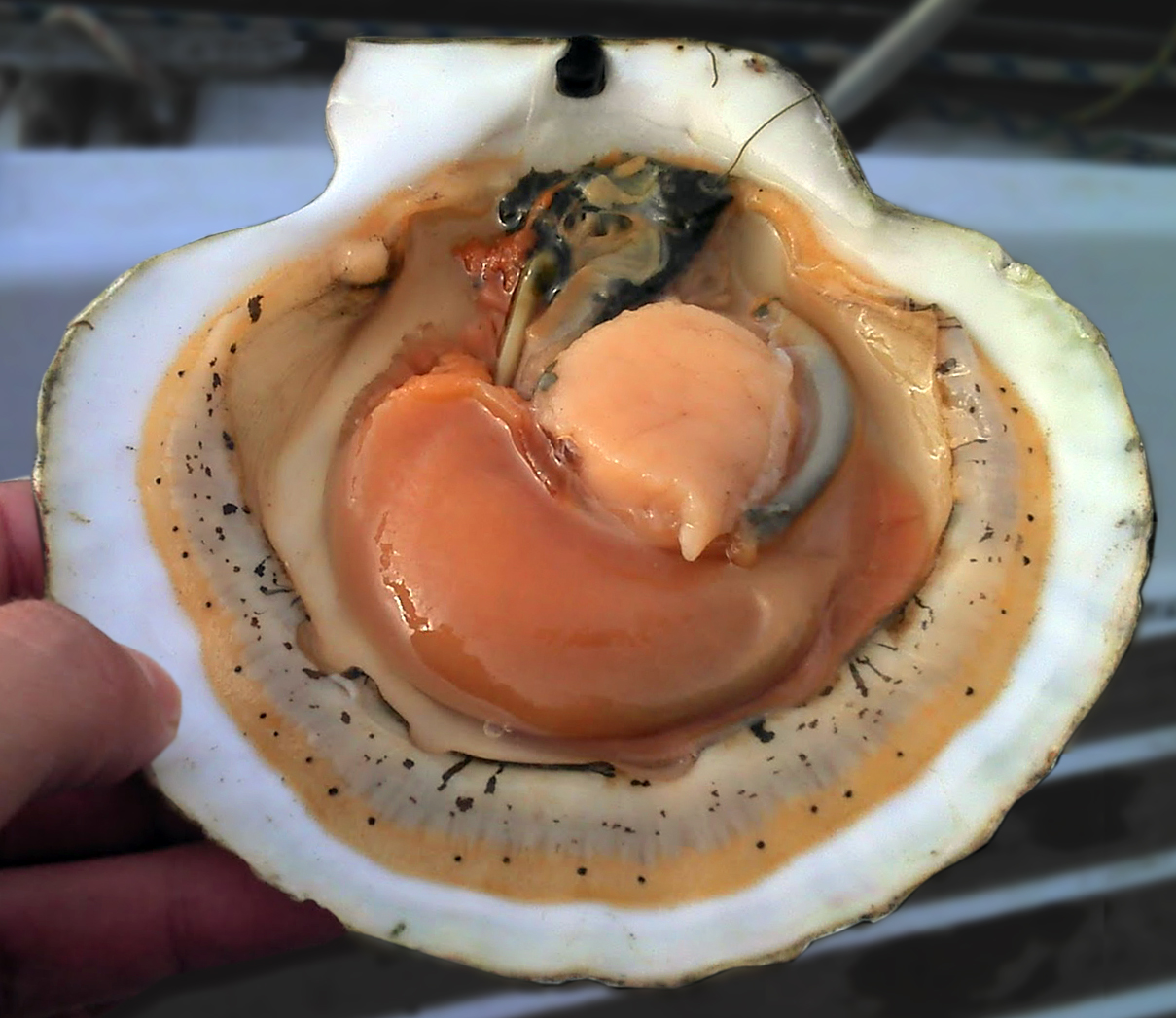 Opened shell of scallop Object location42° 55′ 48″ N, 131° 25′ 36″ E